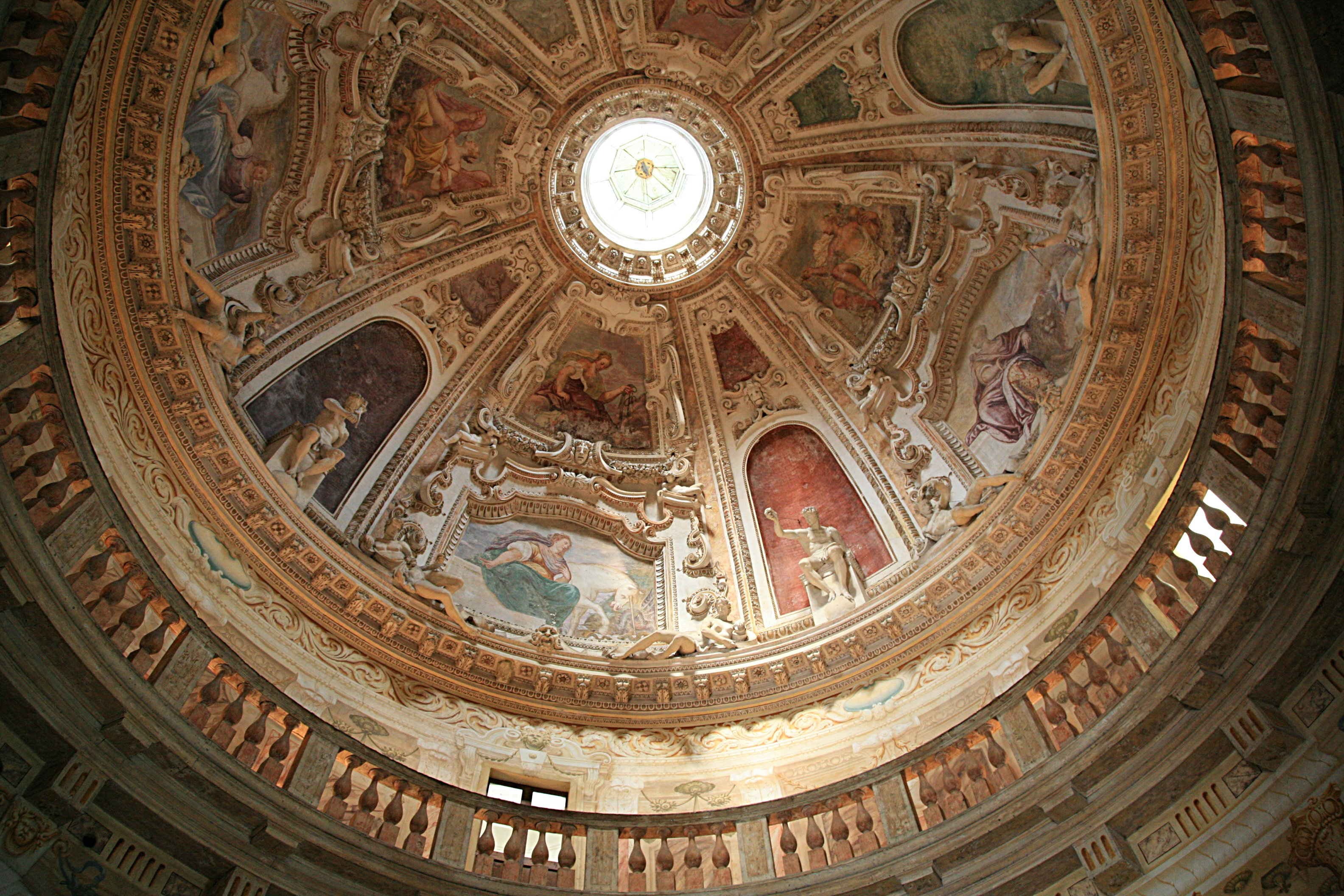 Interiour from La Rotunda by Andrea Palladio